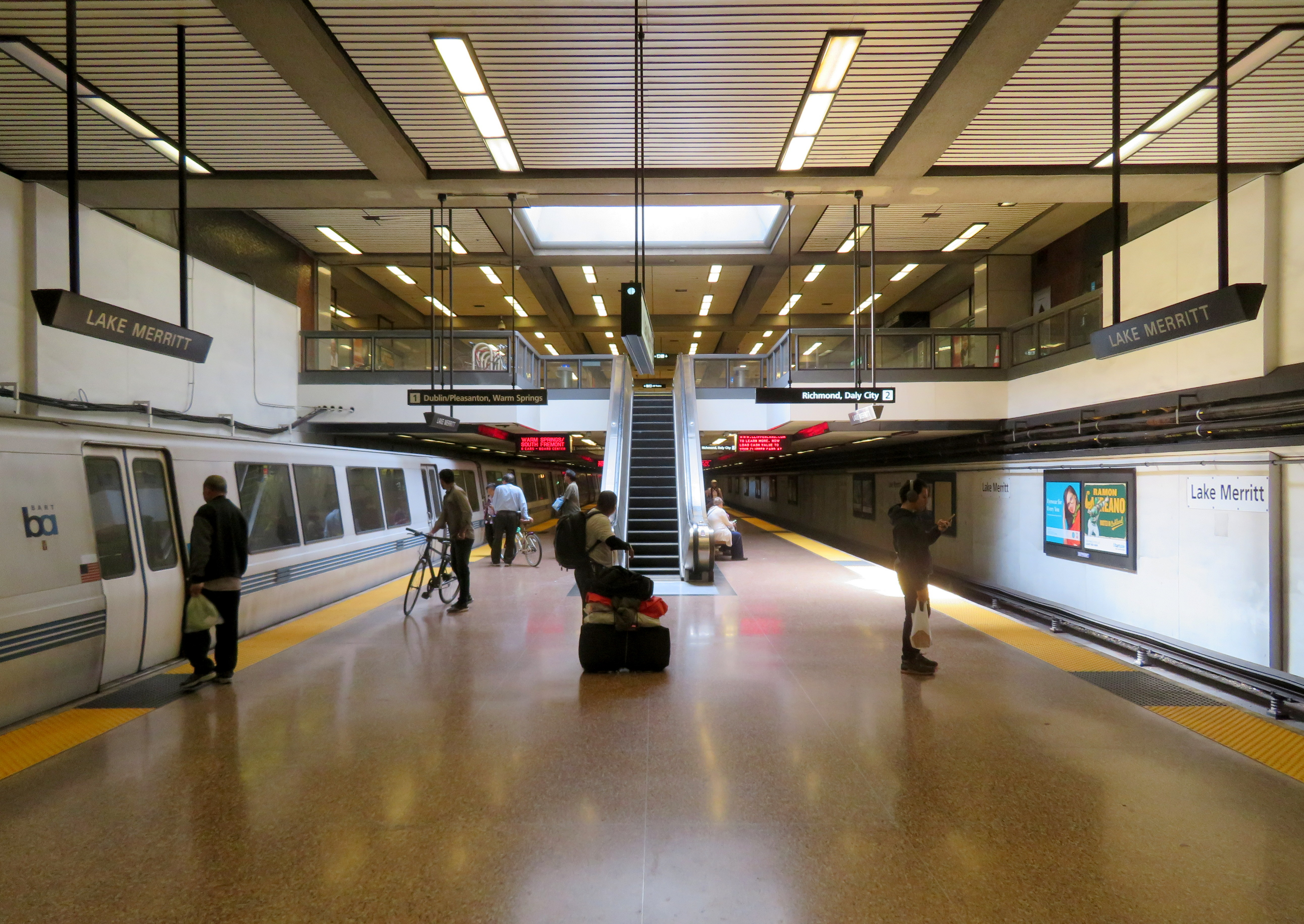 Warm Springs-bound train at Lake Merritt station in June 2019